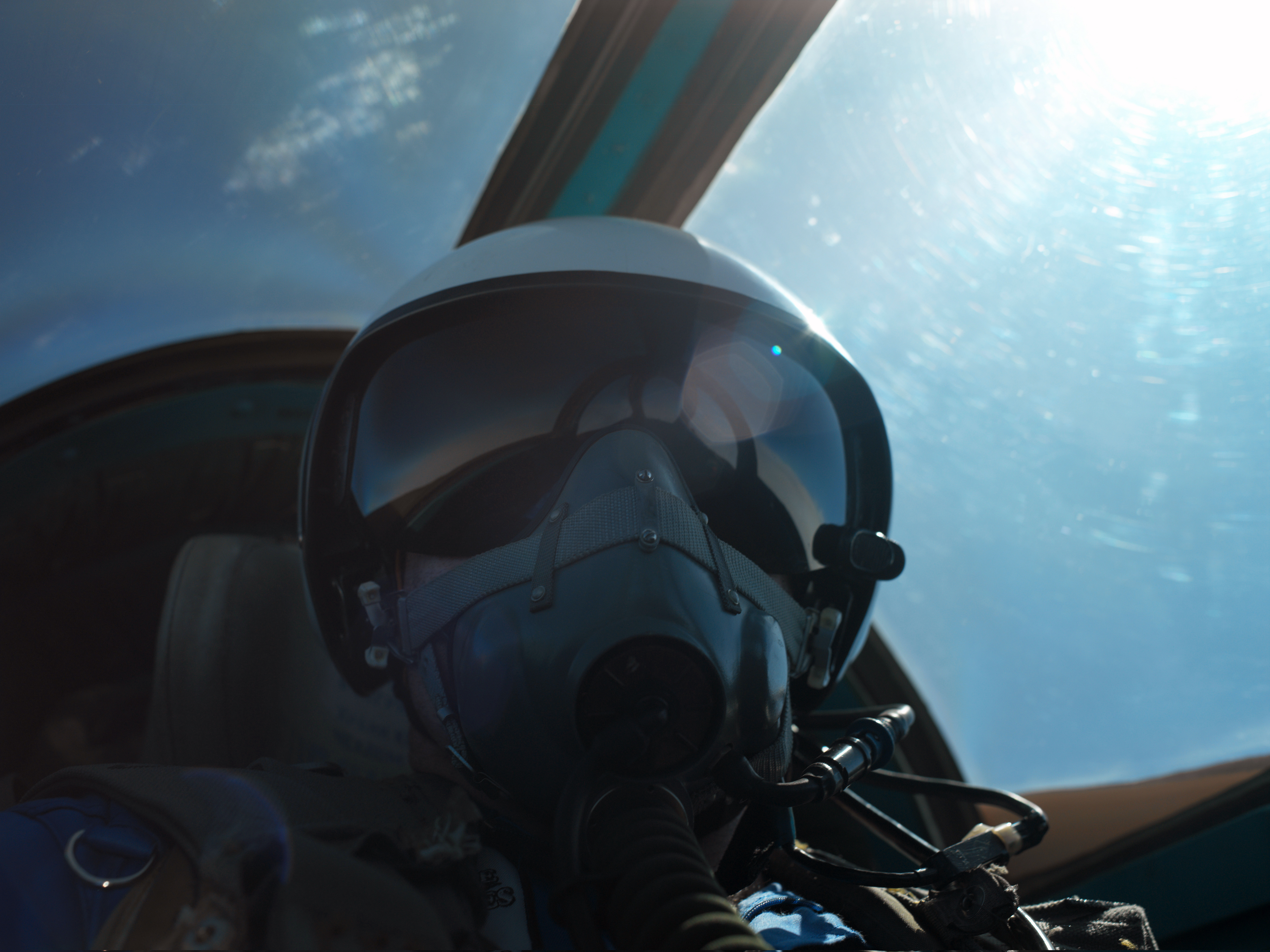 Self-portrait in a MiG-25 near Zhukovsky, Russia.